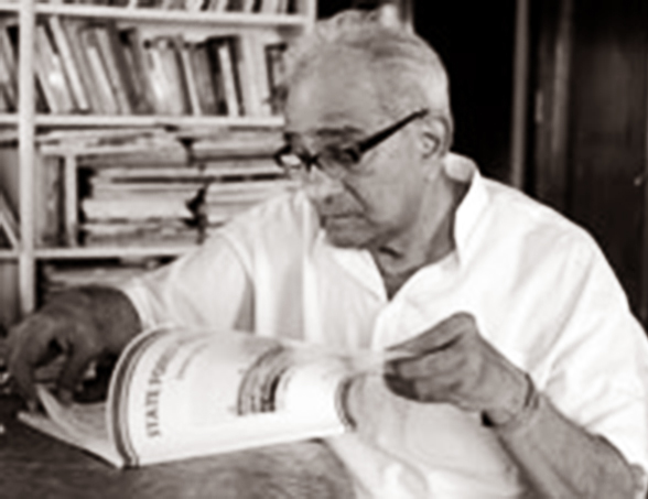 Portrait of Dr. Ajit Kumar Banerjee